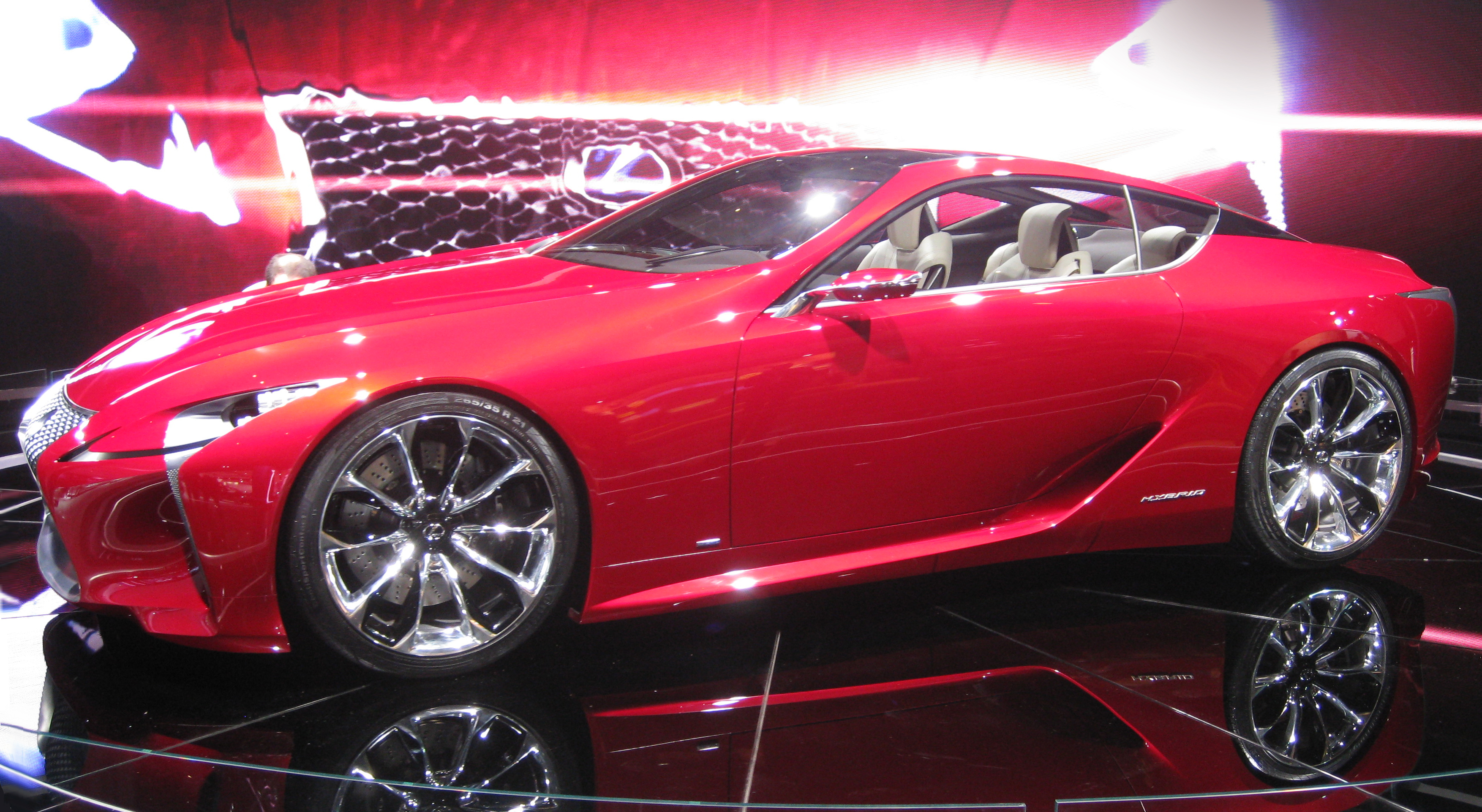 For more info and images please check